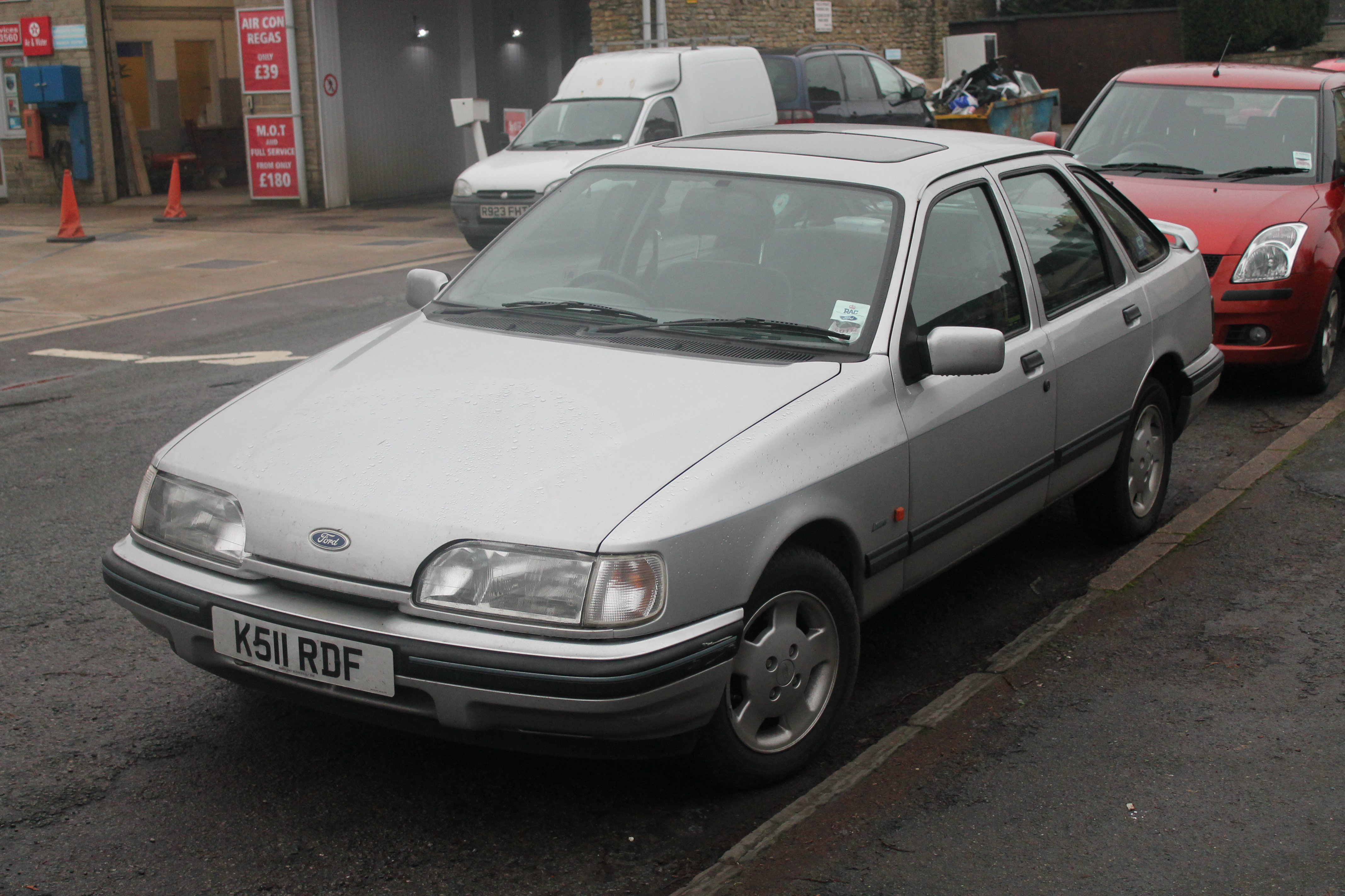 I think the late Sierra Azuras were really nice looking cars.